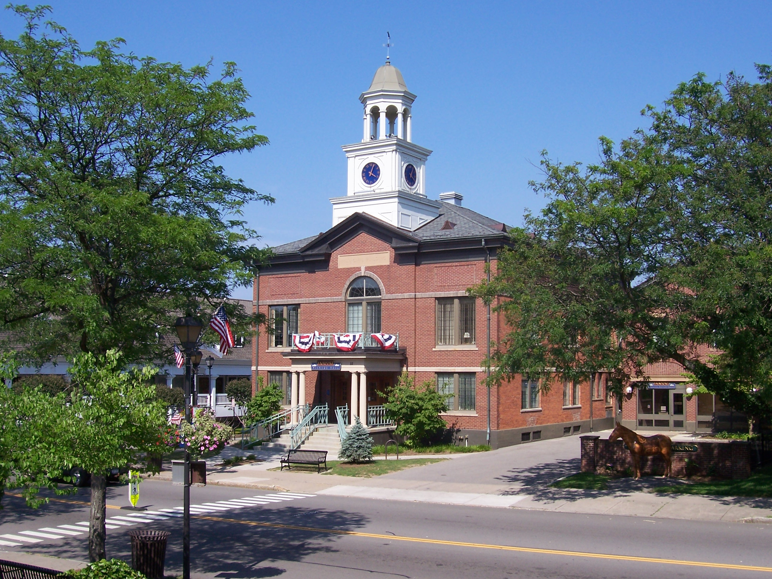 Fairport, New York village hall